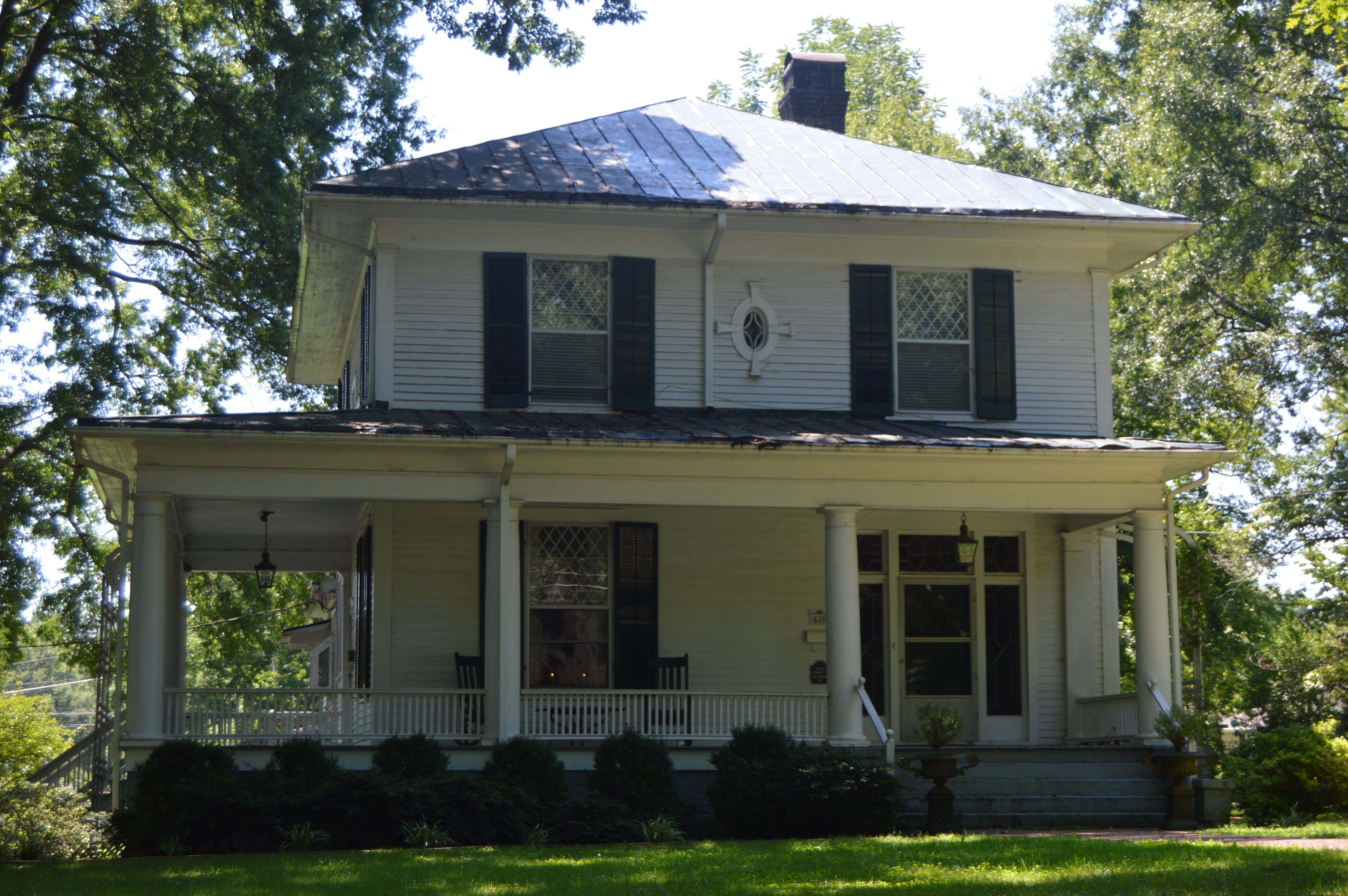 Front of the Hudgins House, located at 439 Walker Street in Chase City, Virginia, United States. Built in 1910, it and the nearby MacCallum More museum are listed listed together on the National Register of Historic Places as a historic district.